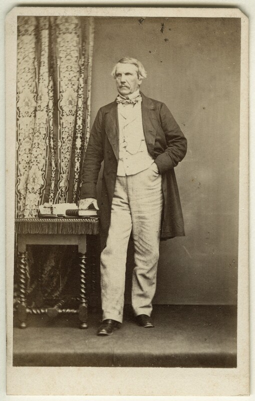 John Laird Mair Lawrence, 1st Baron Lawrence by John & Charles Watkins albumen carte-de-visite, 1860s 3 1/2 in. x 2 1/4 in. (90 mm x 57 mm) image size